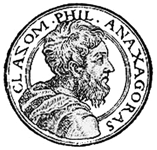 Anaxagoras, presocratic philosopher.